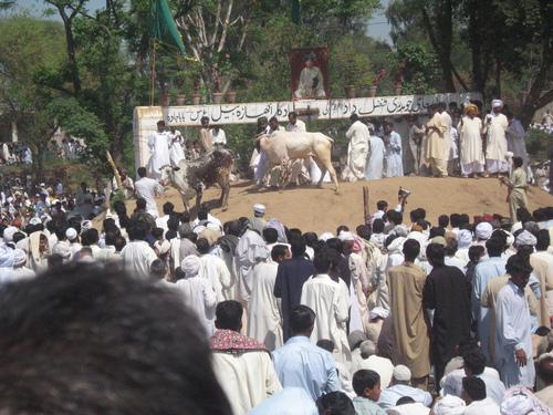 Kantrili, Bull race, Persian water wheel races and the rural sport scene